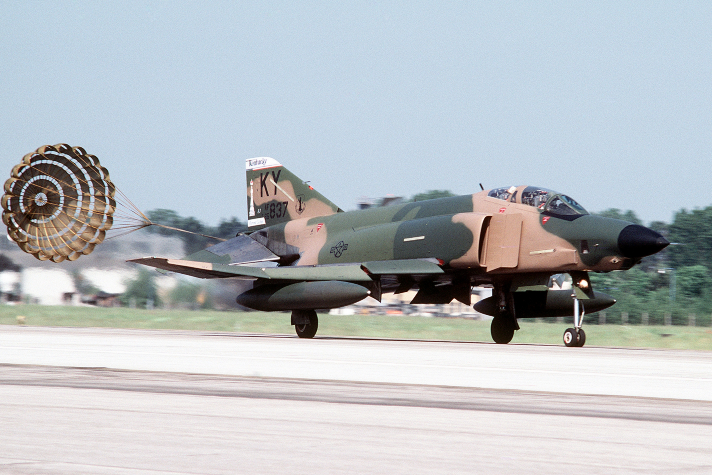 A U.S. Air Force McDonnell RF-4C-24-MC Phantom II (s/n 65-0837) from the 165th Tactical Reconnaissance Squadron, 123rd Tactical Reconnaissance Group, Kentucky Air National Guard, landing on an airbase in Germany during exercise "Checkered Flag '83" on 25 May 1983. This aircraft was retired to the AMARC as FP0790 on 3 December 1991.